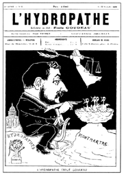 French twice-weekly periodical L'Hydropathe n°4 (1879)